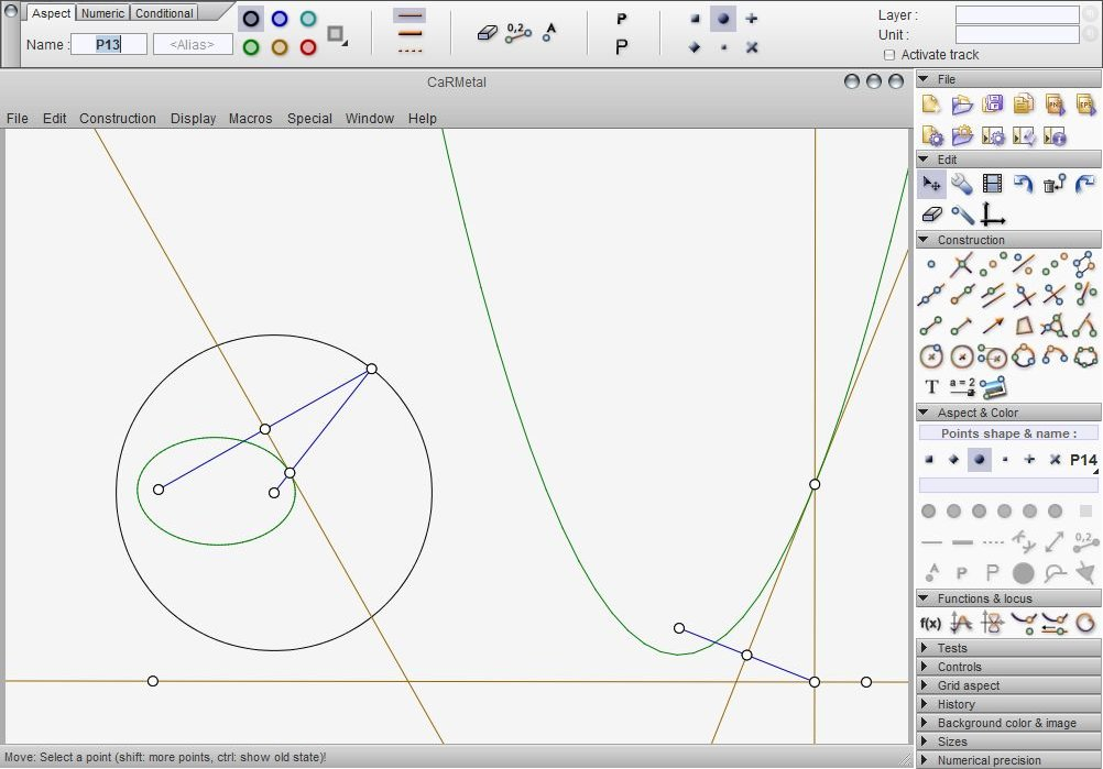 Construction of an ellipse and hyperbola with CaRMetal.